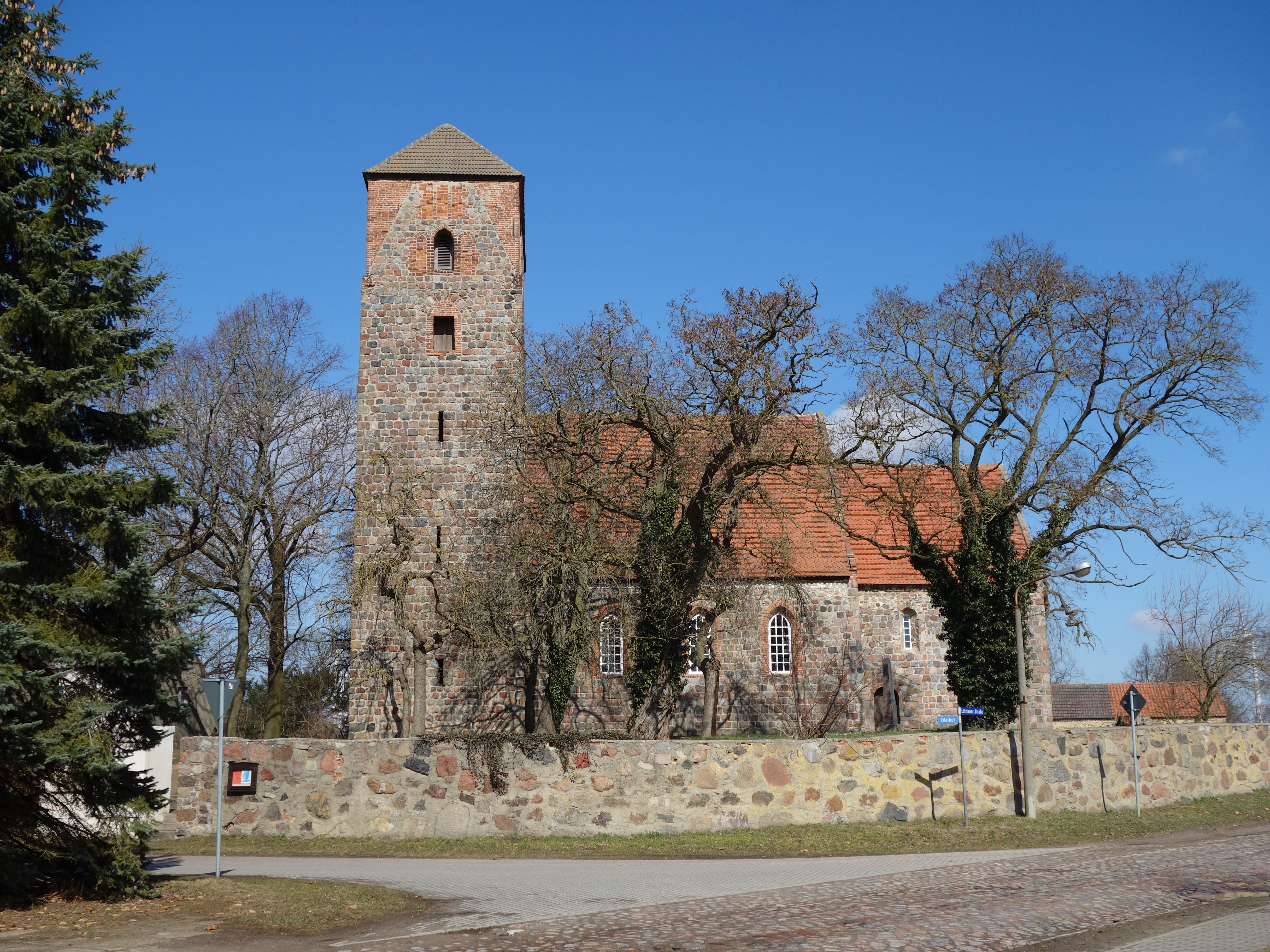 Southern view of the church in Lützlow , Gramzow municipality , Uckermark district, Brandenburg state, Germany